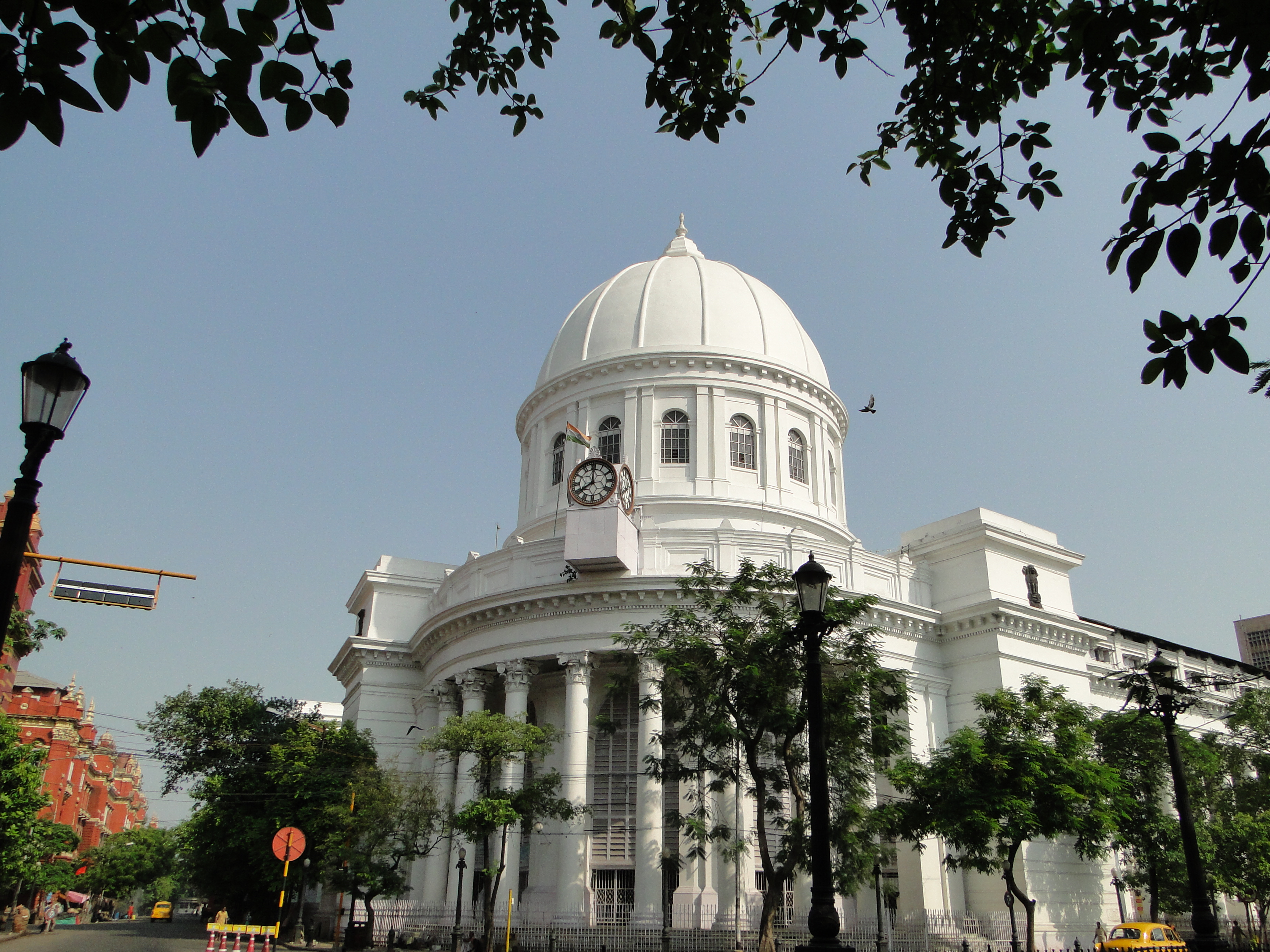 GPO, Kolkata